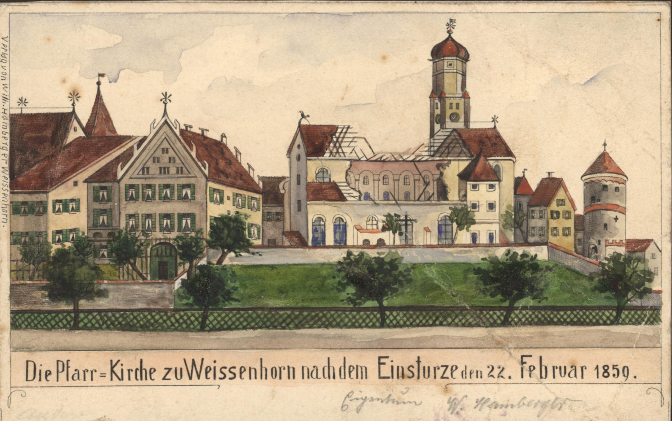 The church of Weißenhorn after the collapse on 22 February 1859